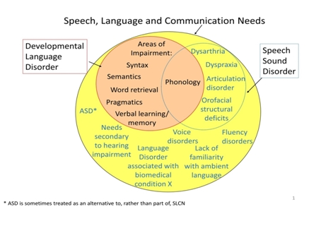 A venn diagram comparing the impairment in common speech, language and communication needs.